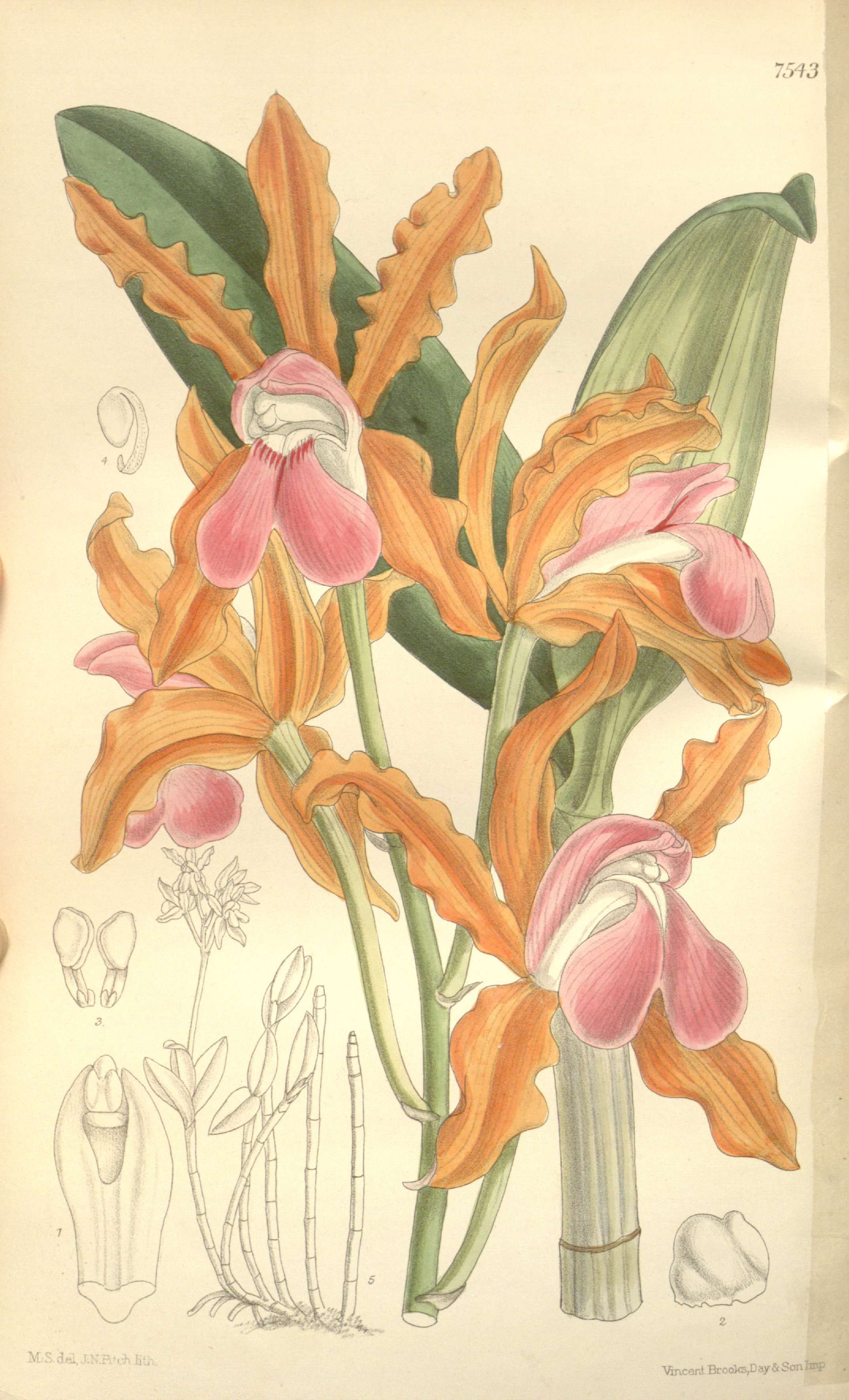 Illustration of Cattleya elongata